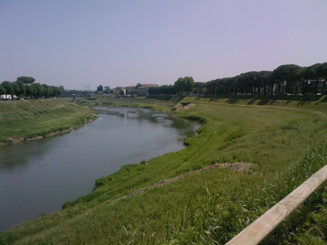 Arno river in Empoli